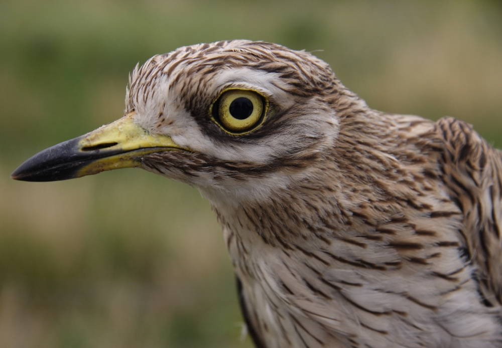 Eurasian Stone-curlew (Burhinus oedicnemus), Mekszikópuszta, Hungary